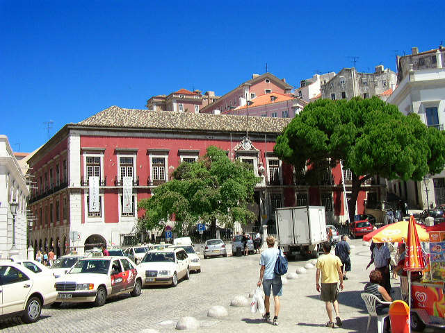 Independence Palace in Lisbon